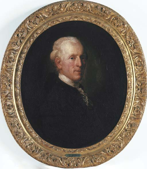 Portrait of Julius_Christian_von_Schauroth (-16.3.1794), 1777